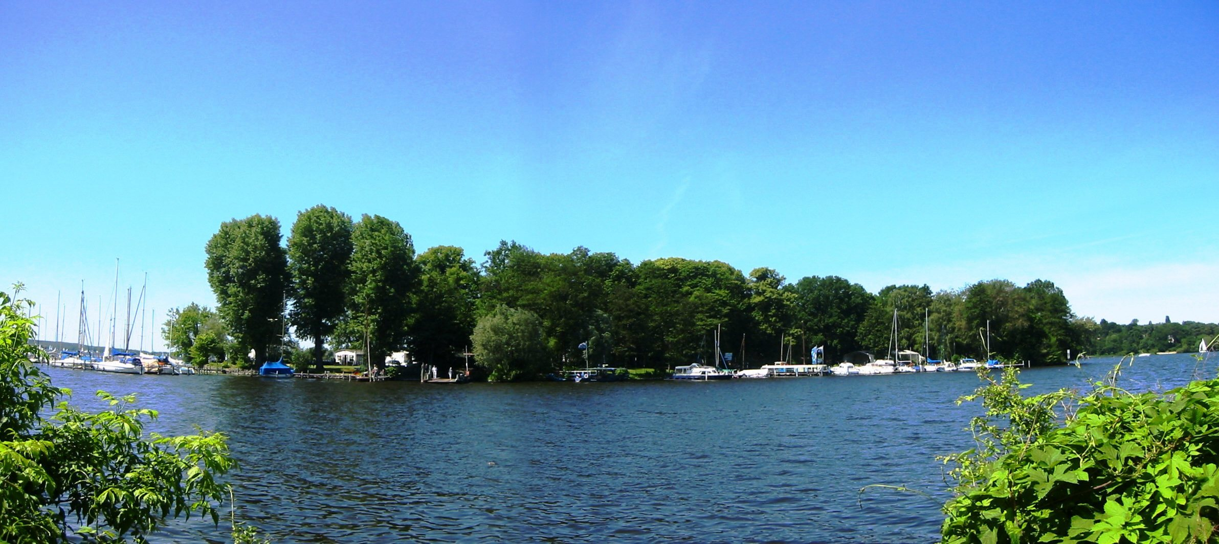 View from the mainland to the island Berlin-Nikolassee Lindwerder (Havel)